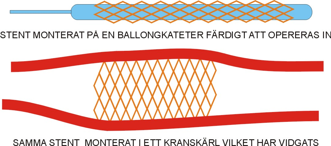 Stent